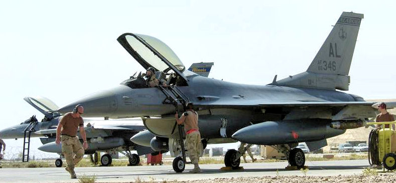 Alabama Air National Guardsmen from the 187th FW assist a pilot climbing out of F-16C block 30 #86-0346 from the 160th FS at Balad AB on May 22nd, 2006. Note nose marking for 'Superstitious Aloysius 2'. [USAF photo by SrA. Brian Ferguson]